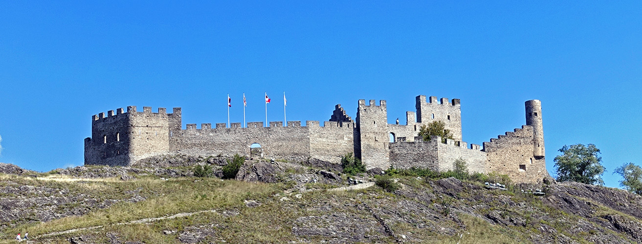 Tourbillon Castle in Sion, Switzerland. Аҧсшәа: Château de Tourbillon.